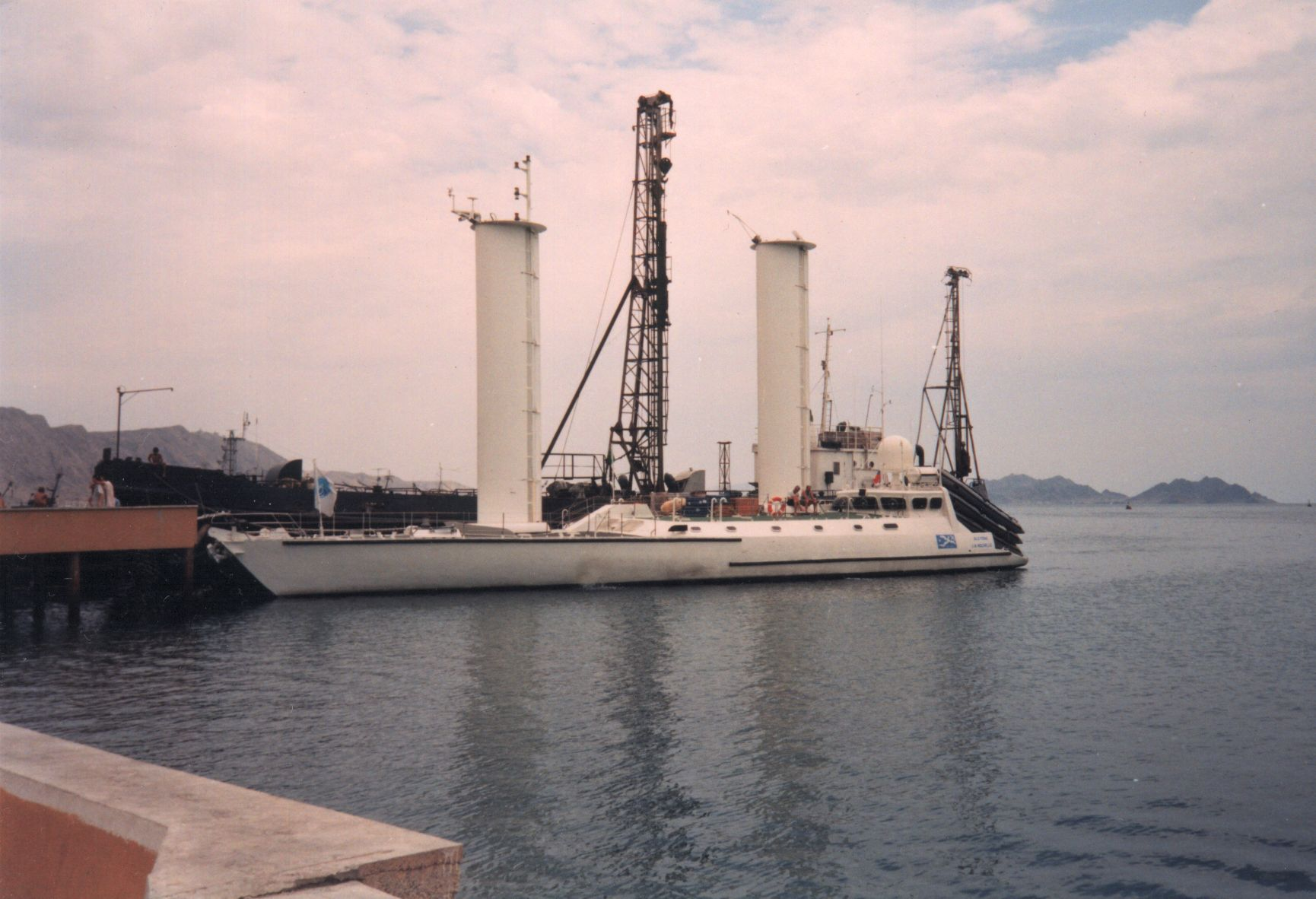 Vessel Alcyone. Port of Turkmenbashy city. Turkmenistan. 1998.